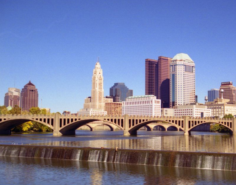 Columbus, Ohio view from near the old Main Street Bridge.